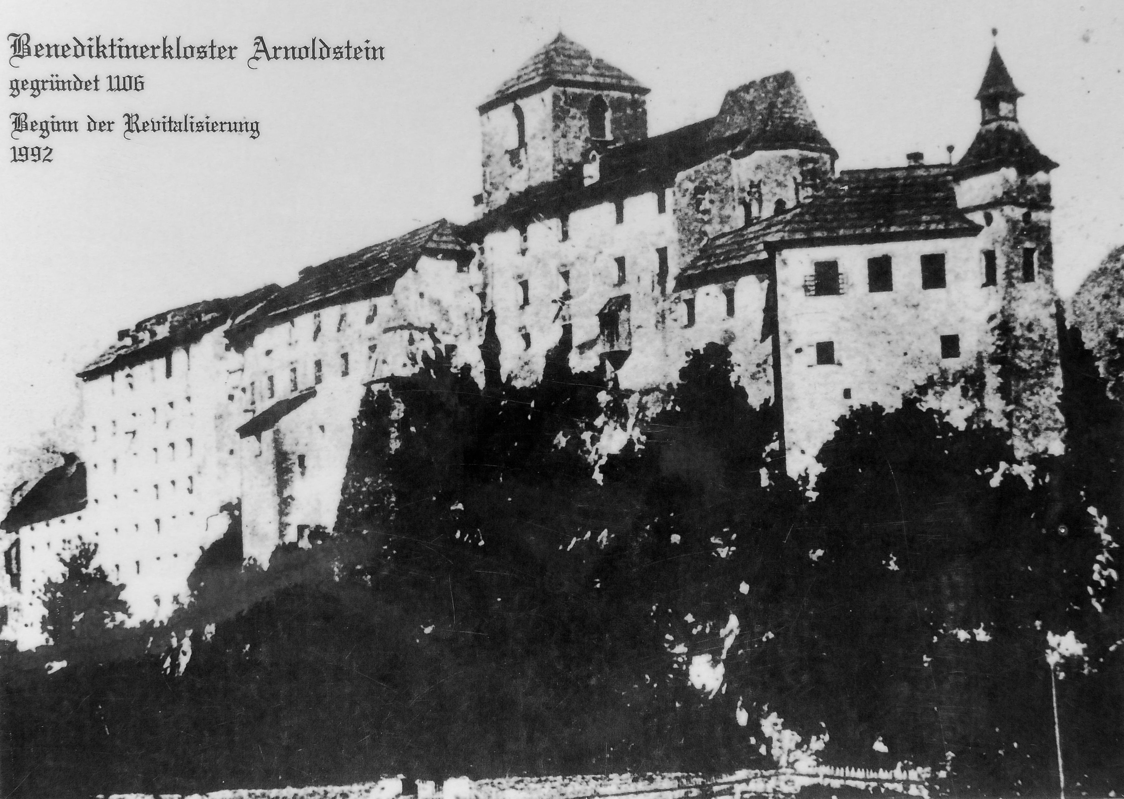 Monastery (around 1880) in Arnoldstein, municipality Arnoldstein, district Villach Land, Carinthia / Austria / EU